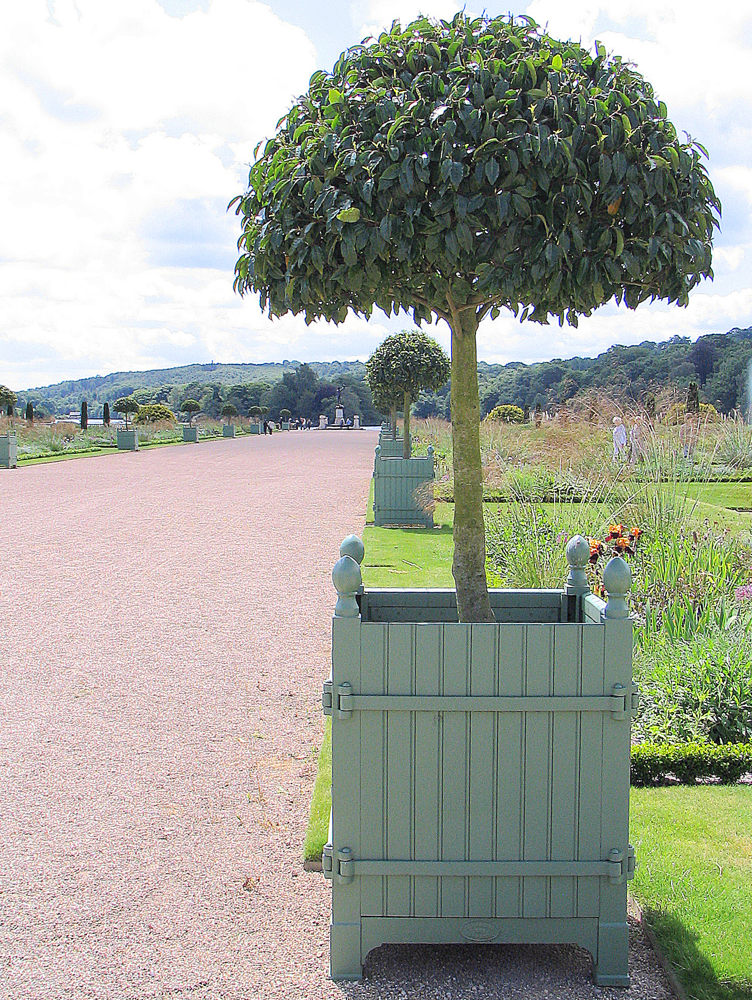 Baroque jardiniere